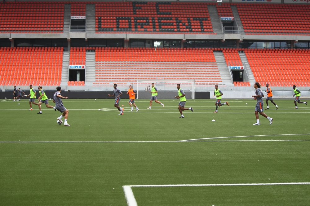 "Stade du Moustoir" located in Lorient, France